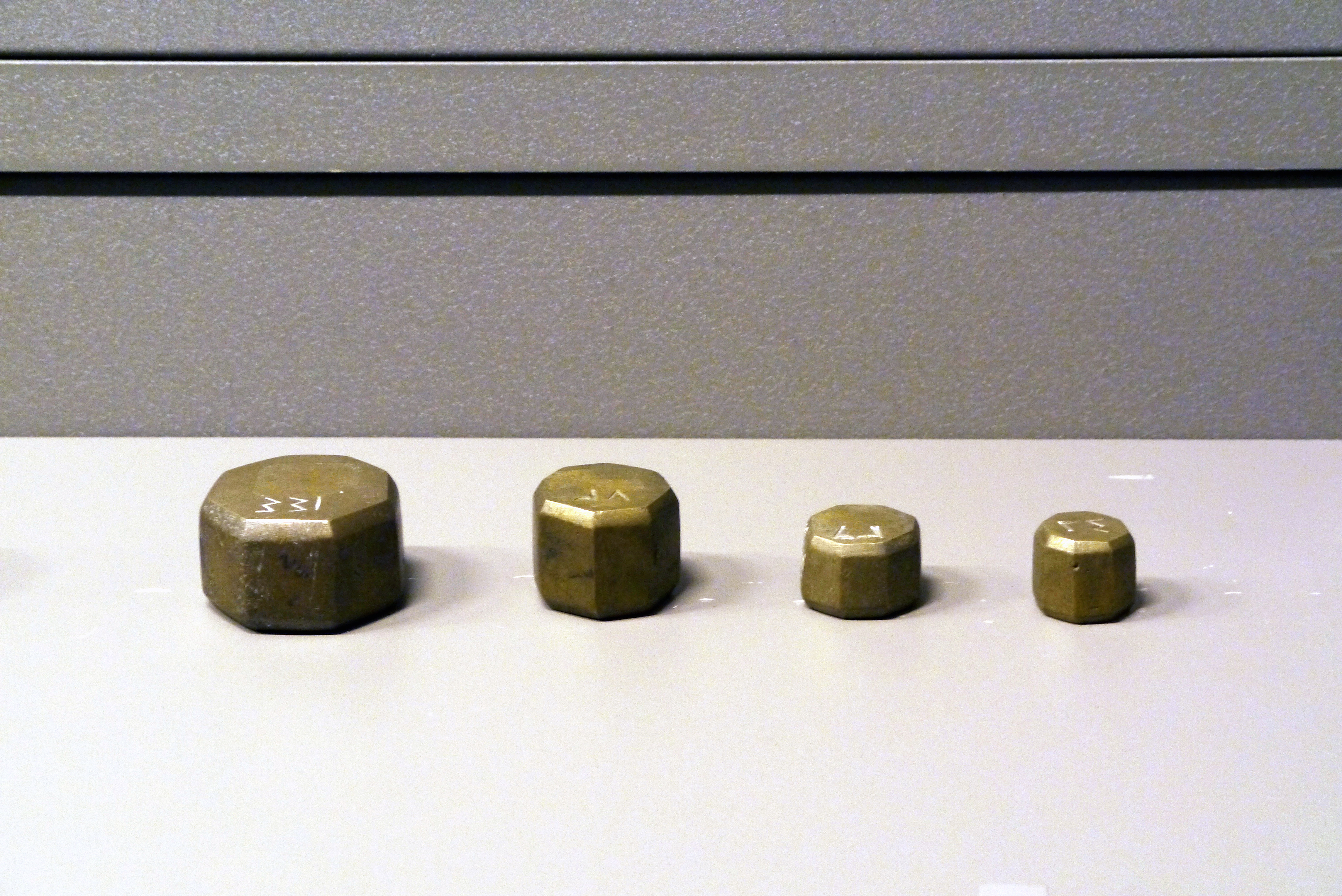 Four weights, from 144 to 24 dirhem, Egypt, mid-19th century.